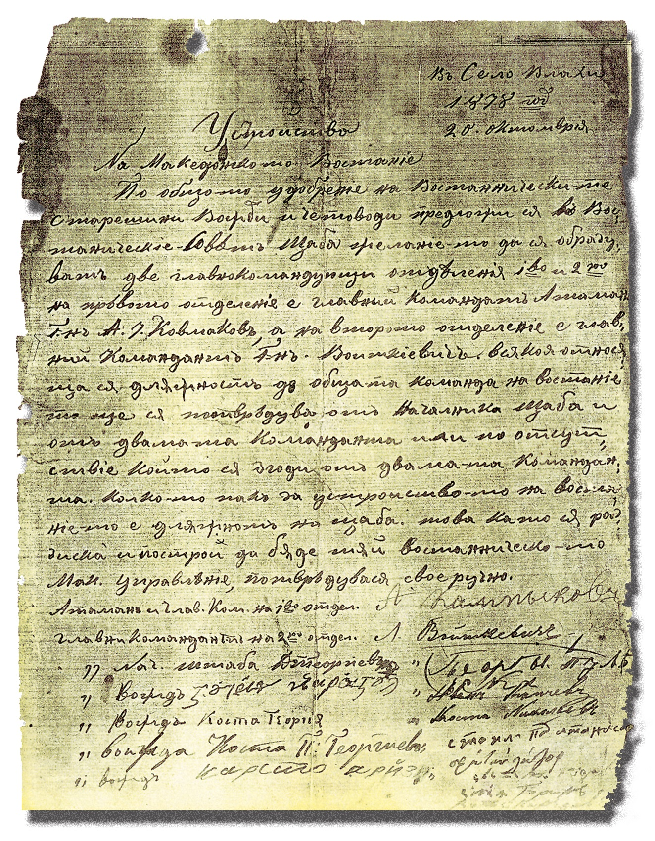 An act on the organizational arrangement of the Macedonian (Kresna) Uprising from 1878, which regulates the duties of the Headquarters, the chiefs and the rebels. This media file is produced by Wikipedian in Residence in Category:Wikipedian in Residence at DARM in 2016.